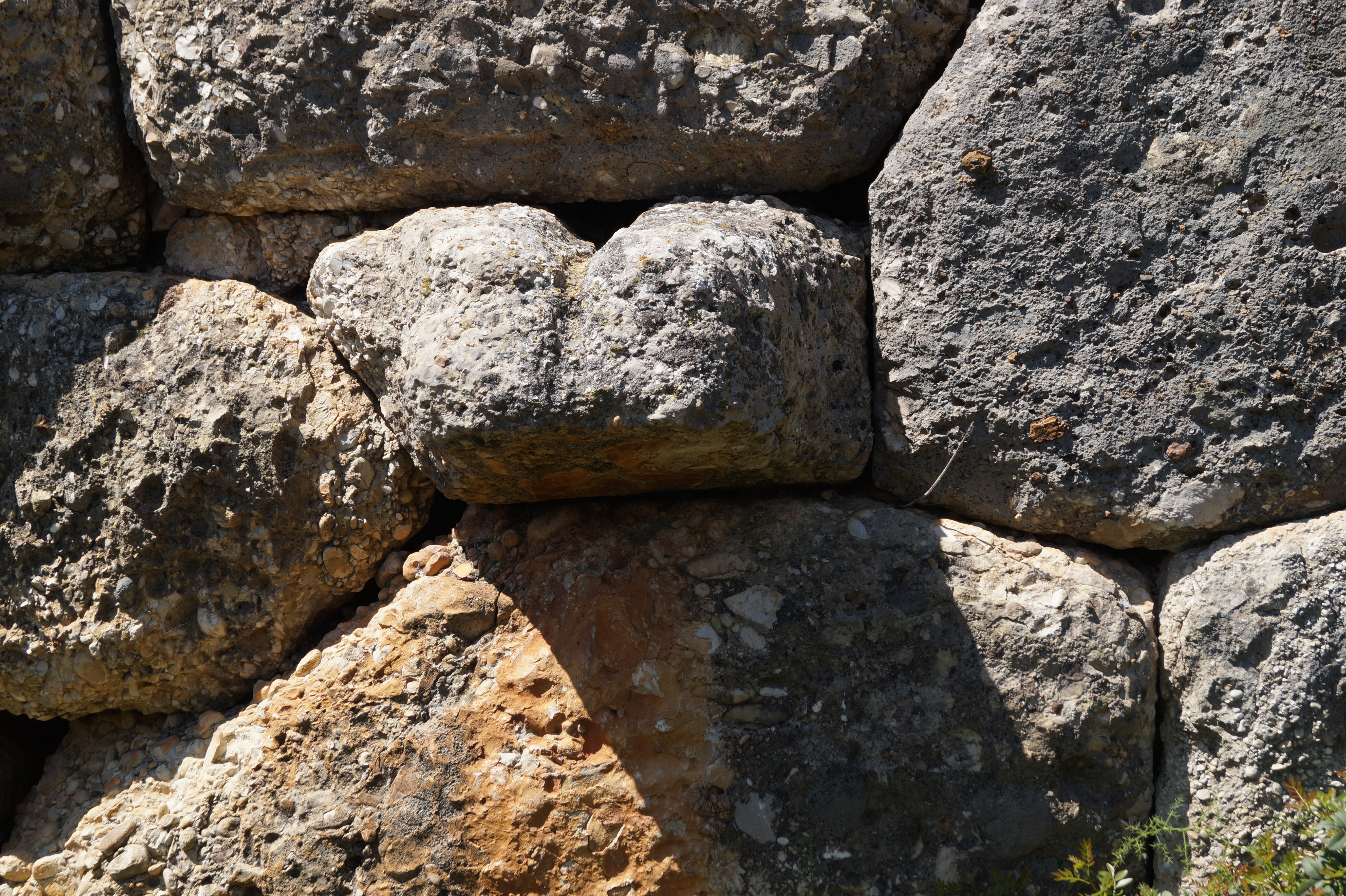 Fichti, Argolis, Greece: Blockhouse near Nemea, east-wall with drain.